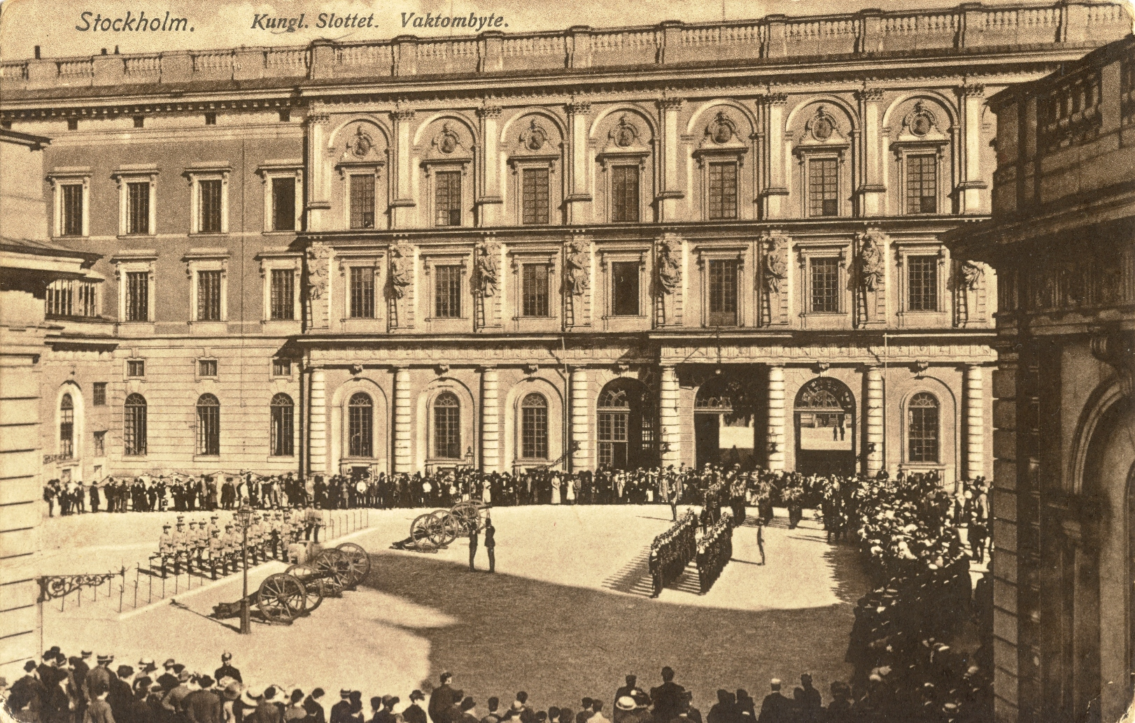 Changing of the guards at Stockholm Palace. The picture was originally published as a postcard. According to a postmark it was not published later than 1912. The troop to the left is using the uniform m/10 of the Swedish Army. This was introduced in 1910. Hence the picture was taken between 1910 and 1912.